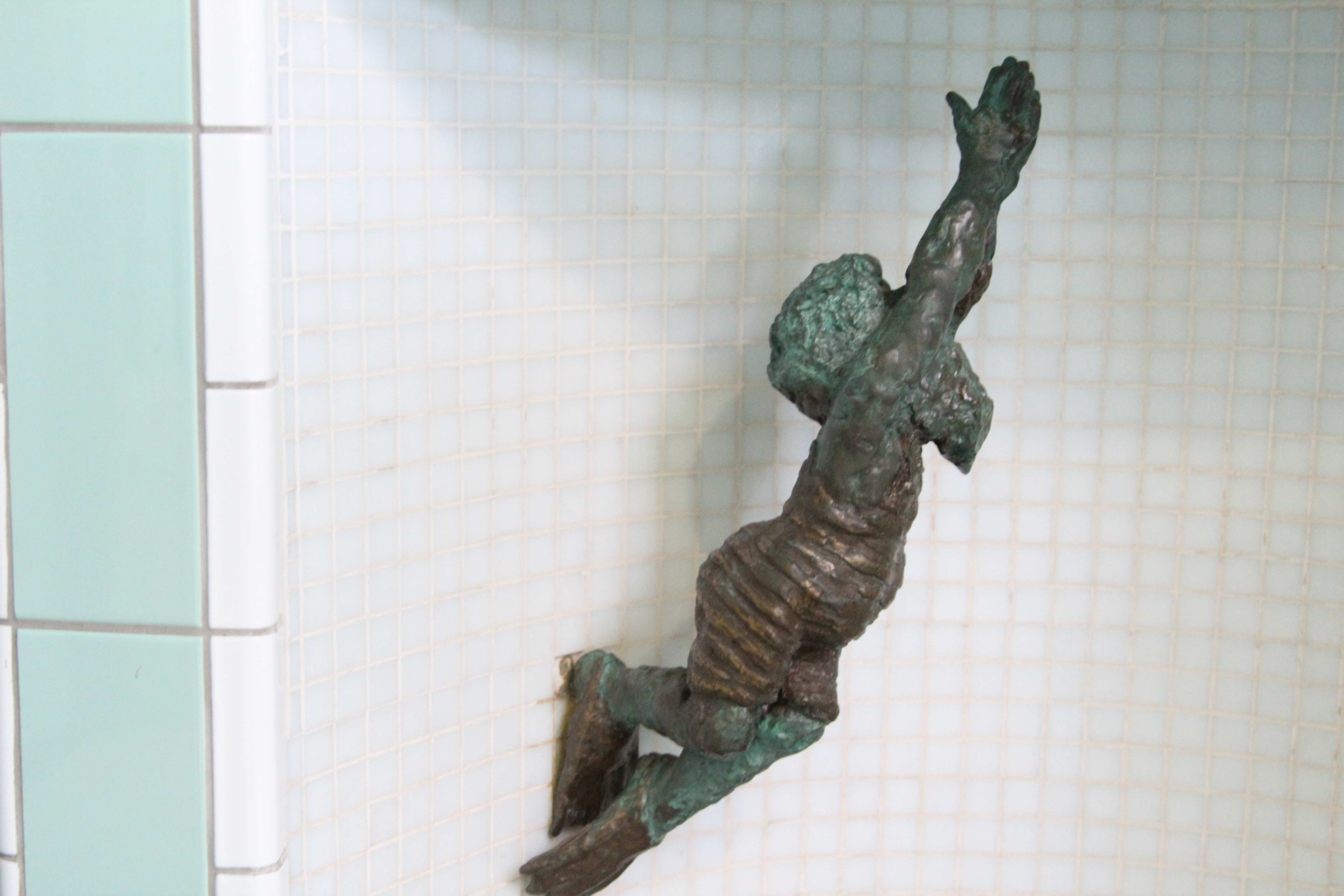 Bubbler (Bulbulek) dwarf from Spa Centre on Teatralna 10/12